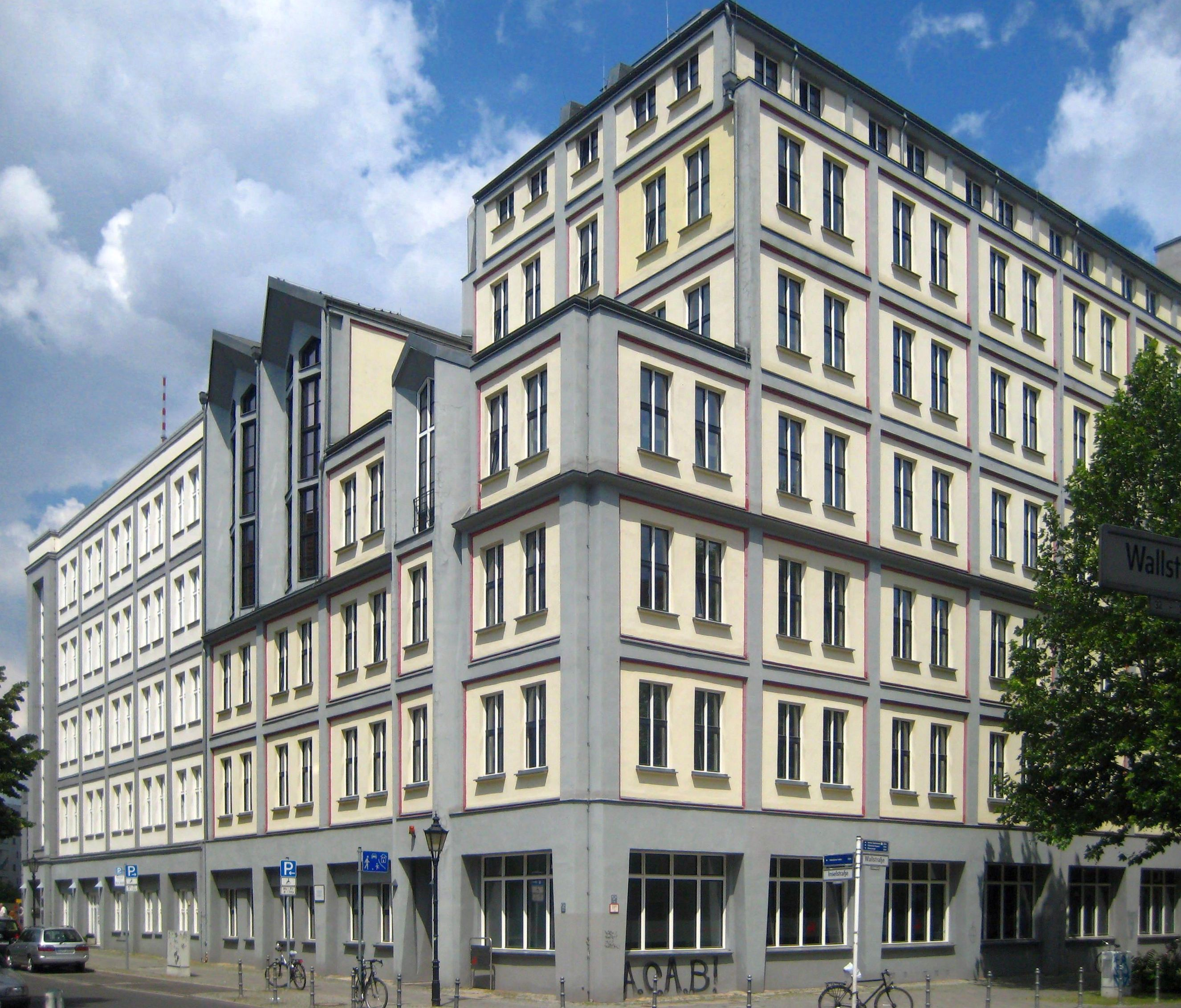 The Hermann Schlimme House at Wallstraße No. 61-65, corner of Inselstraße (on the left) in Berlin-Mitte. The main building was constructed from 1922 to 1923 to a design by Max Taut and Franz Hoffmann as office building for the General Federation of German Trade Unions. It was one of the first modern buildings which used its frame construction as main design component. From 1930 to 1932, the building was expanded by architect Walter Würzbach along Wallstraße and Märkisches Ufer. In 1933, it was taken over by the National Socialists for their German Labor Front. From 1945 to 1990, it was seat of the Berlin branch of the Free German Trade Union Federation (FDGB). The building is now used as office and commercial building by several companies. It is also seat of the embassy of the Republic of Kosovo. The building has been designated as historic landmark.